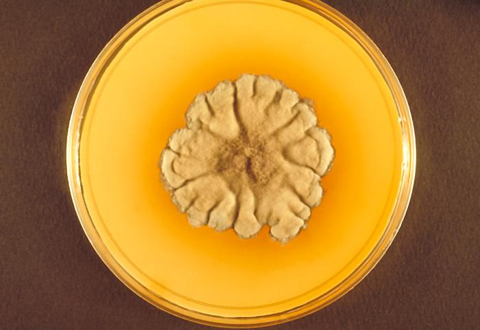 ID#: 4158 Description: This image shows a plate culture growing the fungus Madurella grisea (Georgia isolate). Some Madurella spp are a cause of mycetoma, a fungal infection characterized by sclerotia, or large black masses of hyphae. The fungus enters the human body via trauma, which usually affects the foot. This disease process may take several years. Content Providers(s): CDC/Dr. Libero Ajello Creation Date: 1970 Copyright Restrictions: None - This image is in the public domain and thus free of any copyright restrictions. As a matter of courtesy we request that the content provider be credited and notified in any public or private usage of this image.